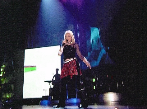 Madonna performing "Beautiful Stranger" on the Drowned World Tour